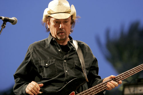 Dusty Wakeman - Live in Concert (photo by Scott Dudelson)